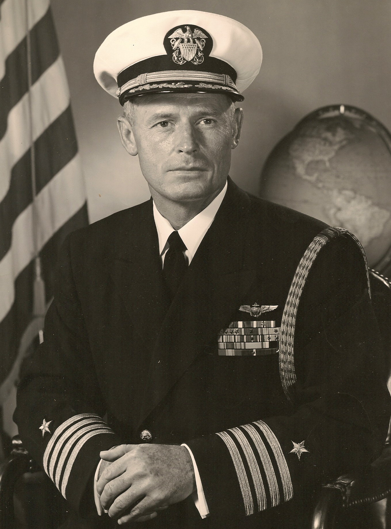 ADM William F. Bringle, USN